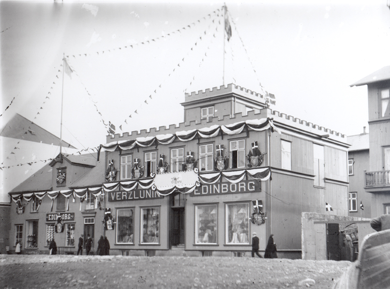 Verslunin Edinborg í Hafnarstræti, skreytt vegna konungskomu, Hafnarstræti 2-4, 1907, Reykjavík, Iceland, Edinborg store in Hafnarstræti 2-4, decorated in the occasion of the Danish king´s visit, 1907. Ljósmyndari / Photographer: Magnús Ólafsson Format: Glerplata / Glass negatives. 12x16 cm. Höfundarréttur / Rights Info: Enginn þekktur höfundarréttur /No known restrictions on publication. Geymsla / Repository: Ljósmyndasafn Reykjavíkur / Reykjavík Museum of Photography, Tryggvagata 15, 6. Hæð / 6th floor Númer myndar / Call Number: MAÓ 157 Myndavefur Ljósmyndasafnsins / Reykjavík Museum of Photography´s photoweb